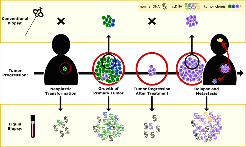 The use of circulating tumor DNA (ctDNA) as a liquid biopsy has potential utility in the clinical setting in monitoring tumor progression. Conventional biopsies are invasive and cannot be used when there is no visible tumor. ctDNA can be analyzed from collected blood and offers the ability to detect low levels of disease and more fully capture tumor heterogeneity.